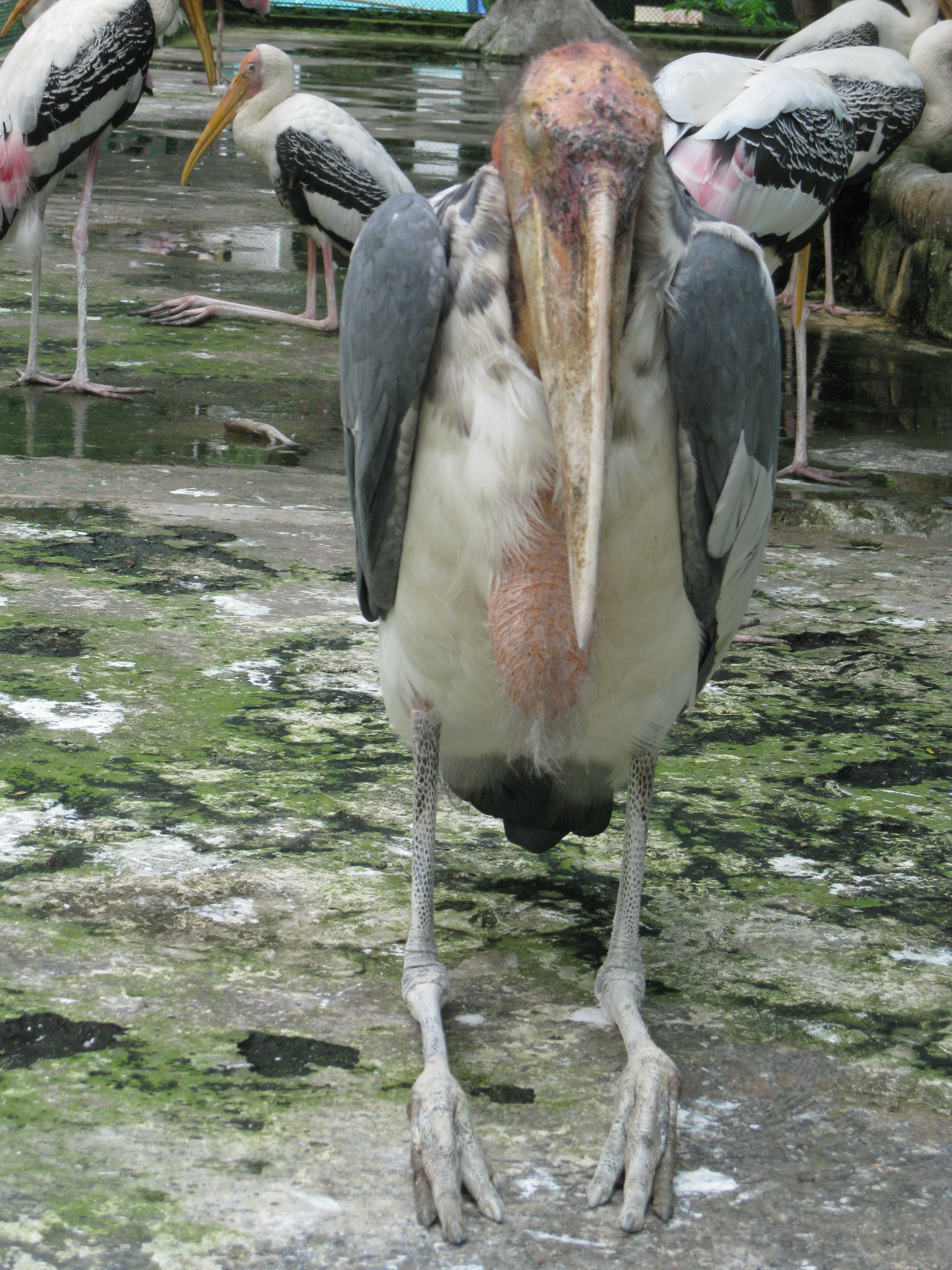 Leptoptilos dubius, Saigon Zoo and Botanical Gardens.